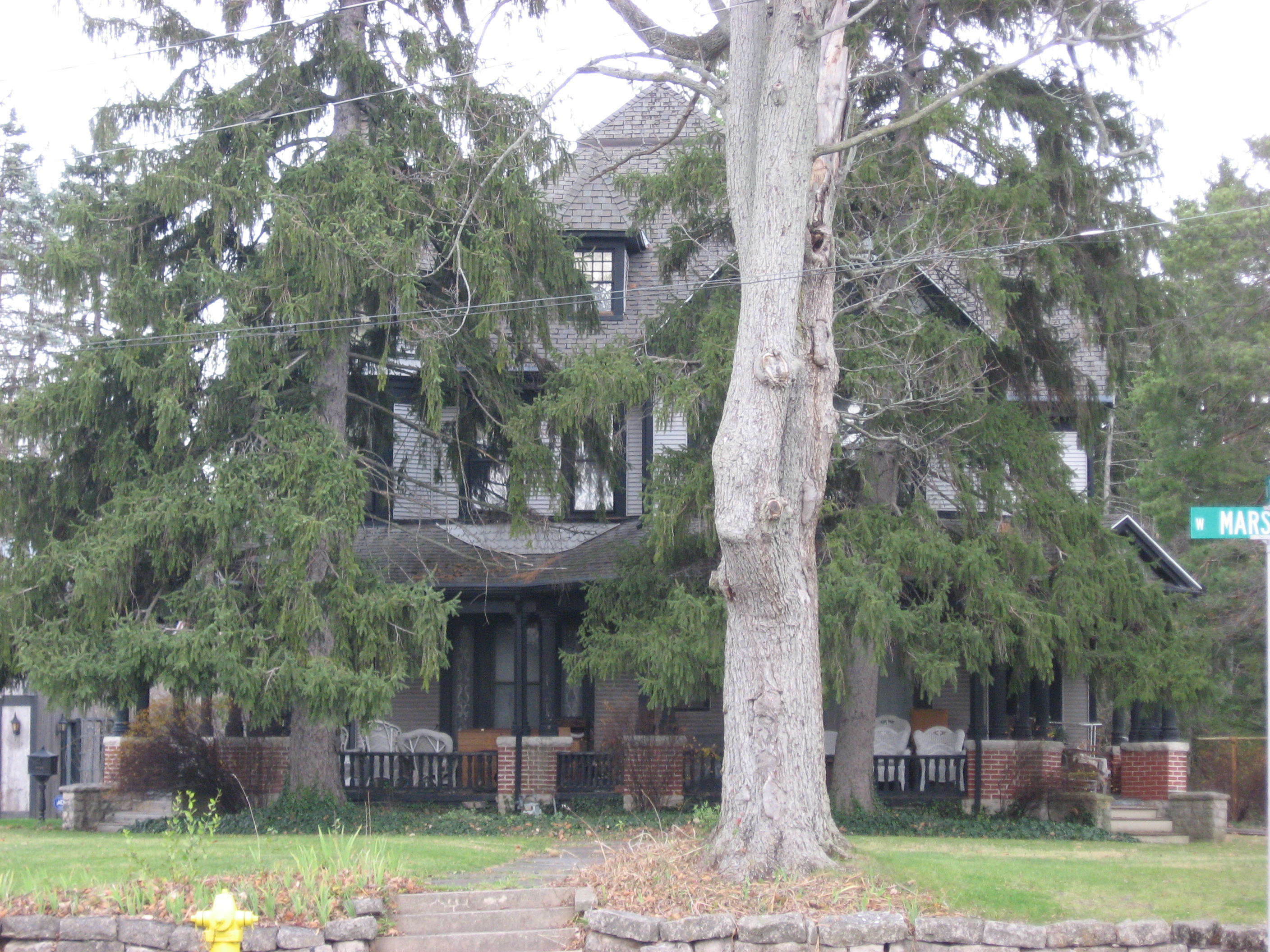 Front of the John S. Bowers House, located at 104 W. Marshall Street in Decatur, Indiana, United States. Built in 1900, it is listed on the National Register of Historic Places.